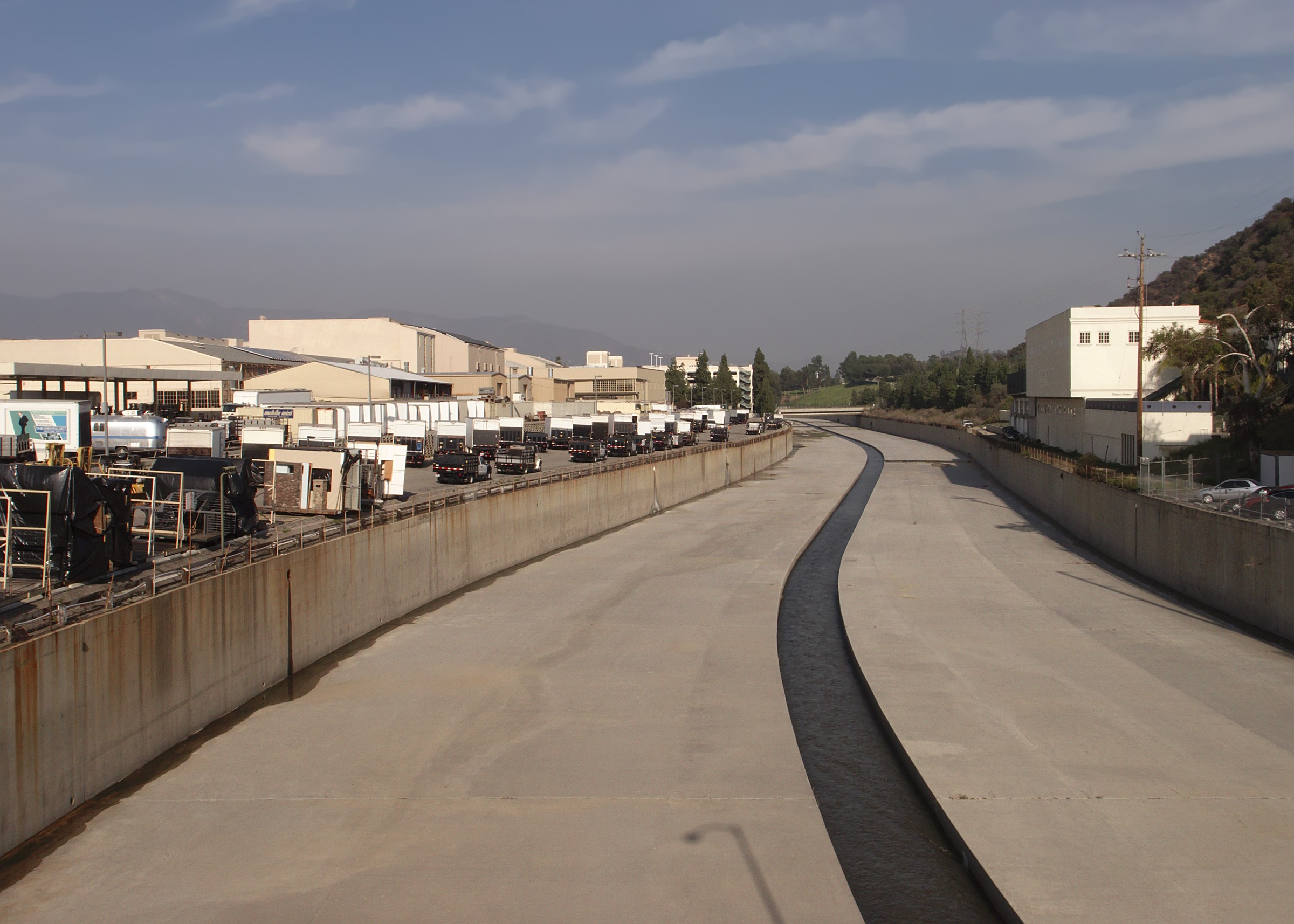 The Los Angeles River looking east from Olive Ave. on the southern border of Burbank, California. The Warner Bros. studios are to the left.